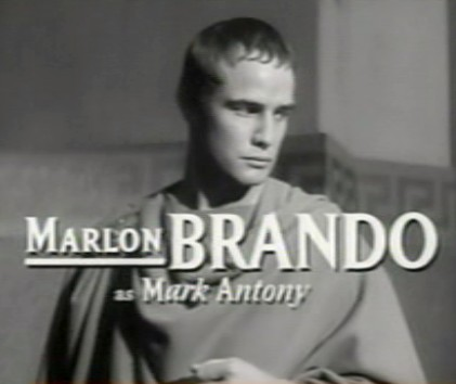 Cropped screenshot of Marlon Brando from the trailer for the film Julius Caesar